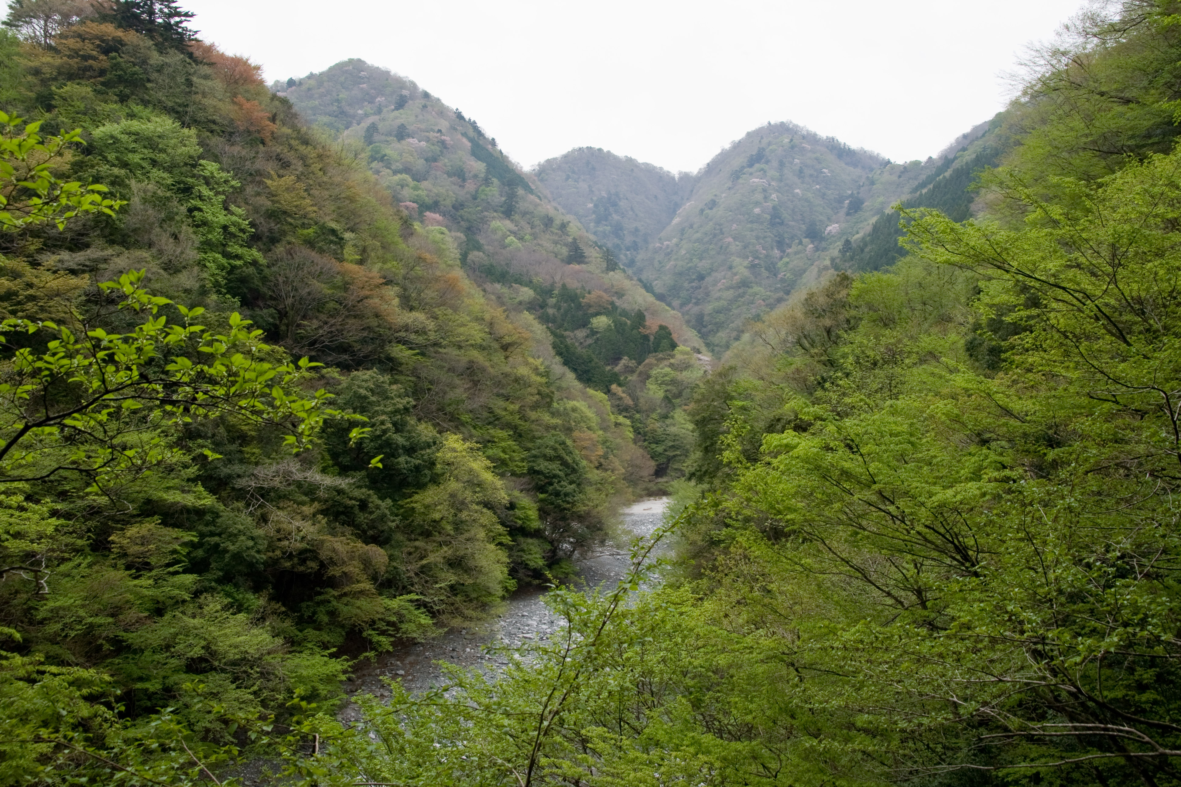 Kurokura river in Mts.Tanzawa, Kanagawa, Japan.